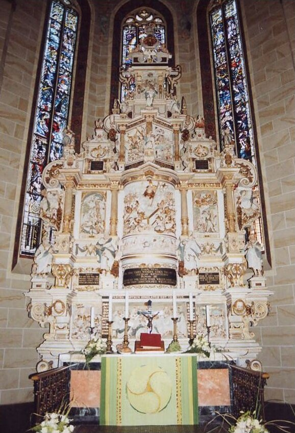 Pirna: The altar of the Church of Our Lady. The altar was made of sandstone by Michael Schwenke, a famous sculptor.